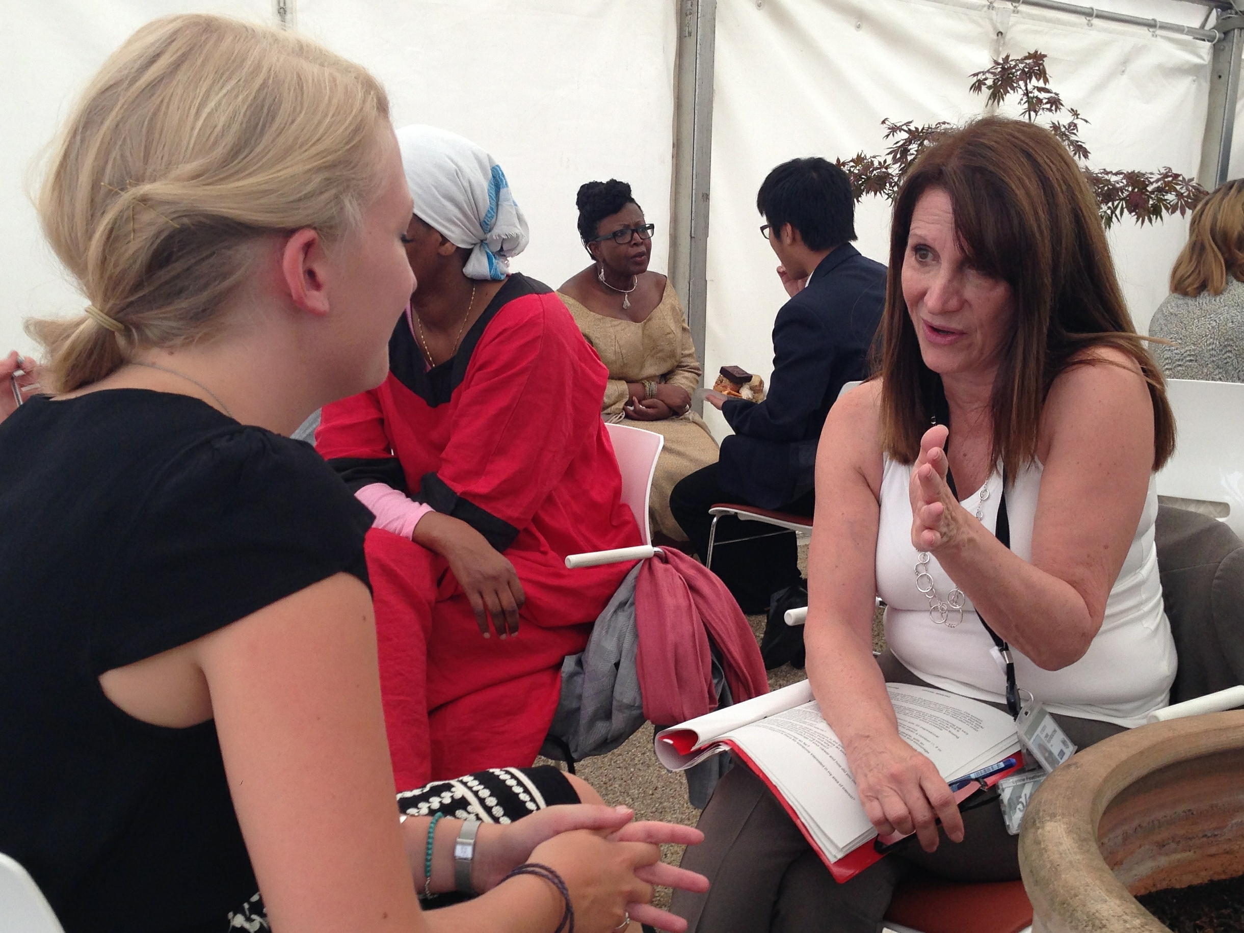 Lynne Featherstone mentoring at Youth For Change